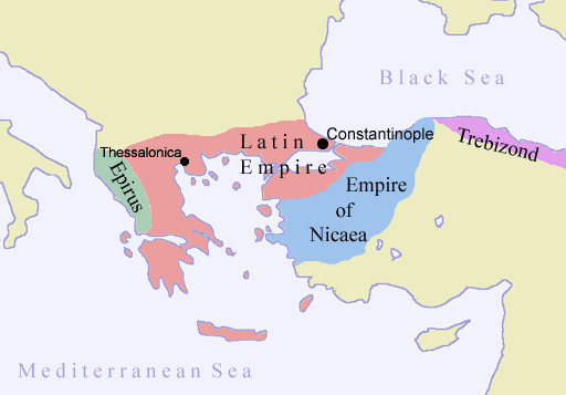 Byzantine Empire after the 4th Crusade. The Latin Empire, Empire of Nicaea, Trebizond and Epirus. Borders are very uncertain.